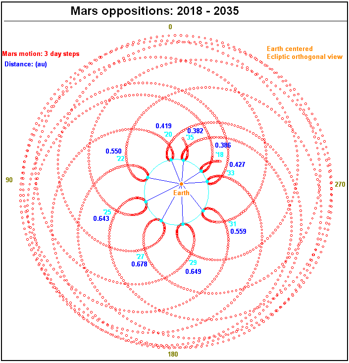 Motion of Mars relative to Earth, showing oppositions, 3 day step, with oppositions listed by year and closest distance.